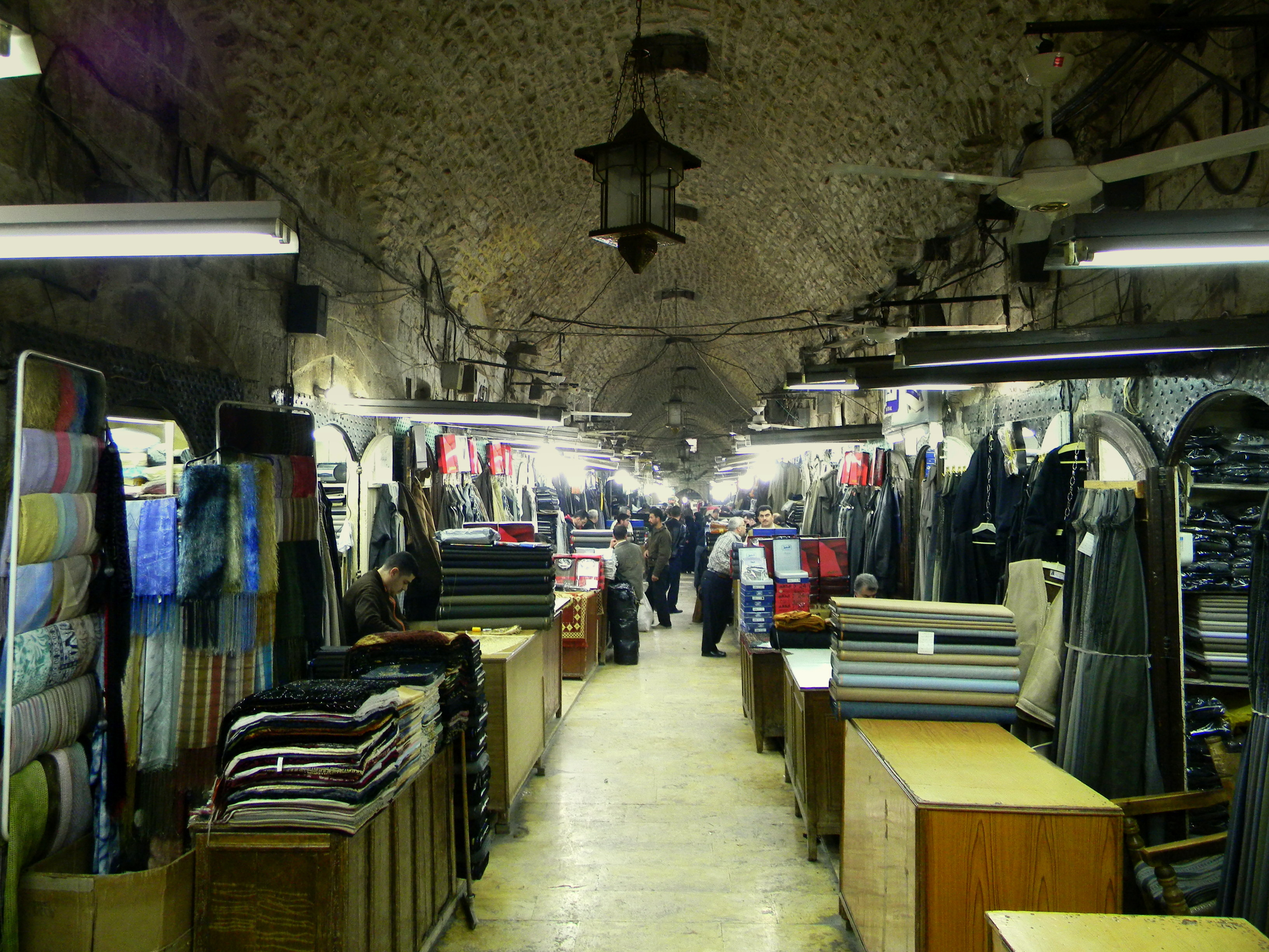 Textiel marke at the covered souq of Aleppo, souq al-Dira' سوق الدراع